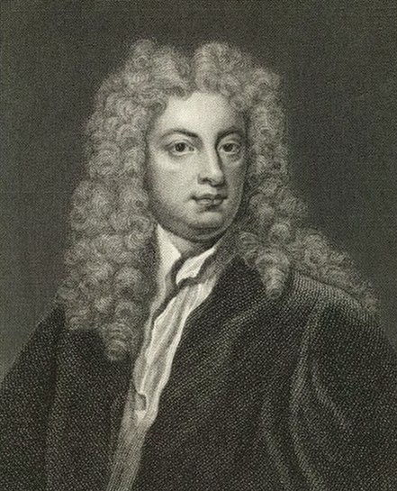 Joseph Addison (1672-1719)